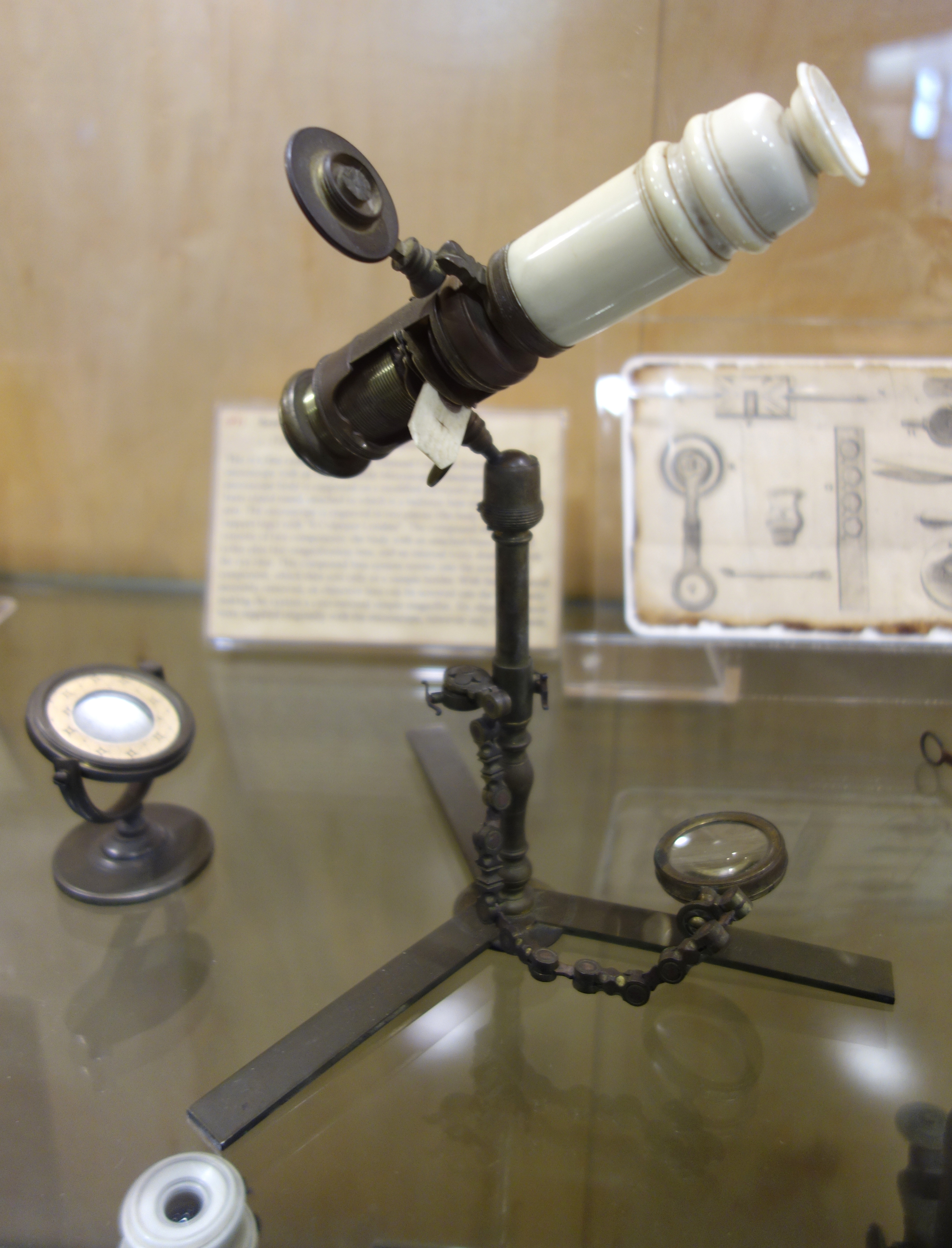 Microscope in the Golub Collection of Antique Microscopes, exhibited at the University of California, Berkeley - Berkeley, California, USA. This microscope is old enough so that its design is in the public domain. Photography was permitted without restriction.